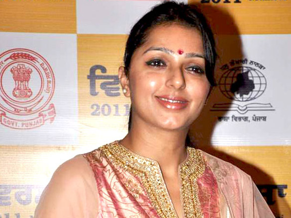 Tere Naam actress Bhumika chawla